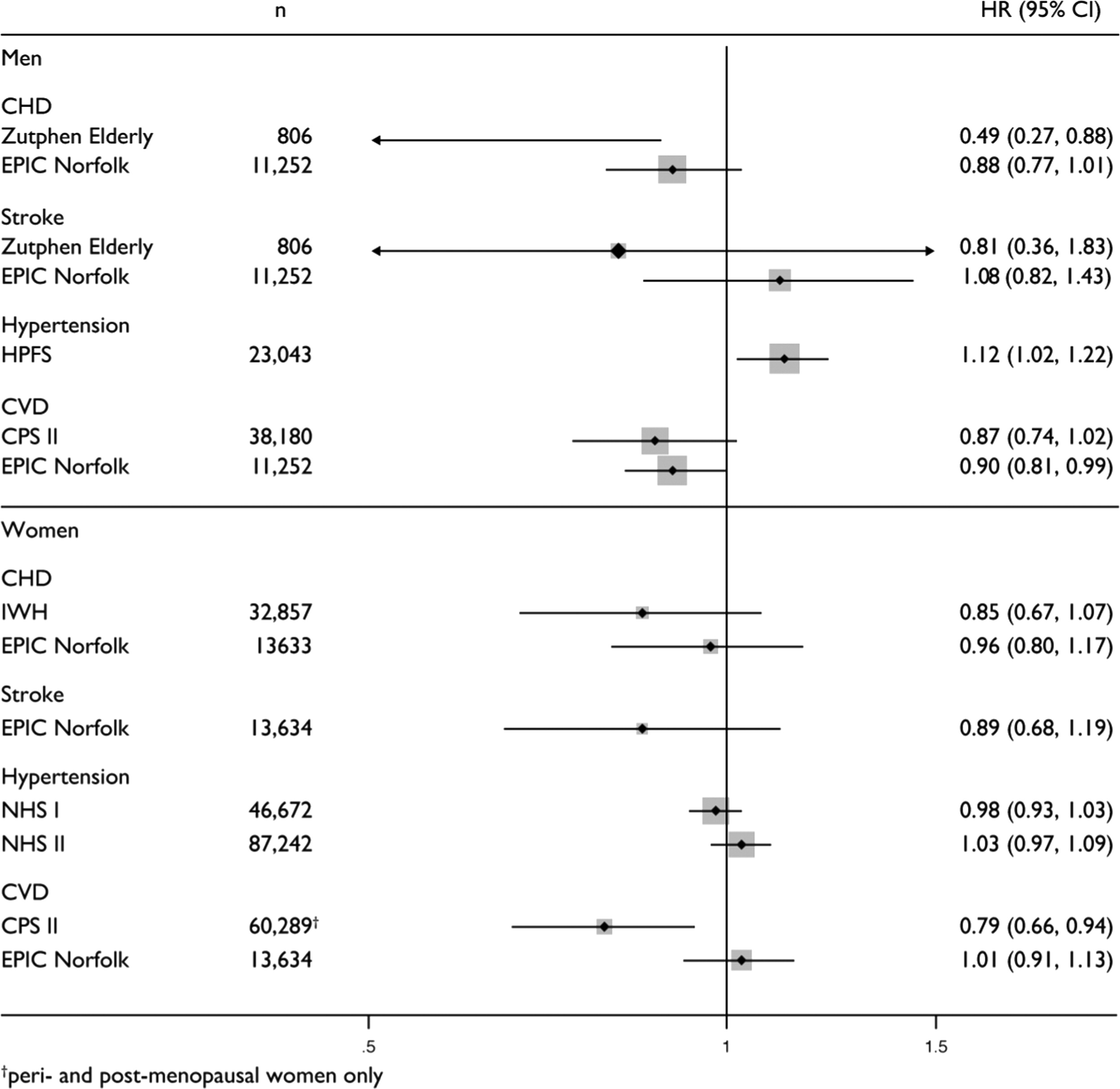 Association between flavan-3-ol intake and incidence of CVD in observational epidemiological studies. Data show the estimated HR (95% CI) comparing the bottom and top quintile of intake. Studies included: Zutphen Elderly Study; EPIC-Norfolk (this study); HPFS: Health-Professional Follow-Up Study; CPS: Cancer Prevention Study II; IWH: Iowa Women׳s Health Study [17]; NHS I and II: Nurses Health Study. Data for IHD and CHD were combined.